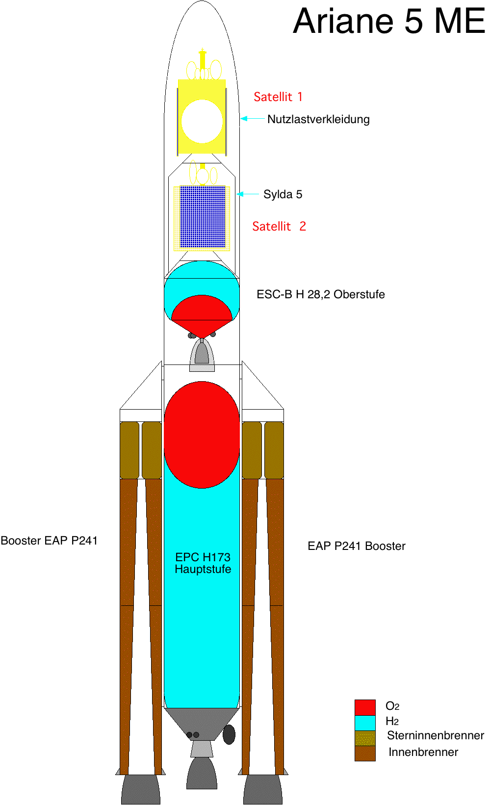 Cut drawing of an Ariane 5 ME